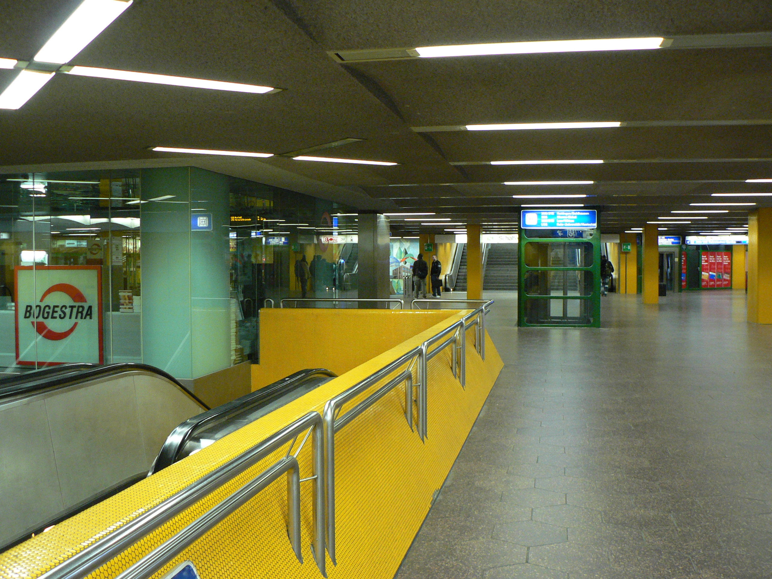 Mezzanine of Bochum Hauptbahnhof subway station